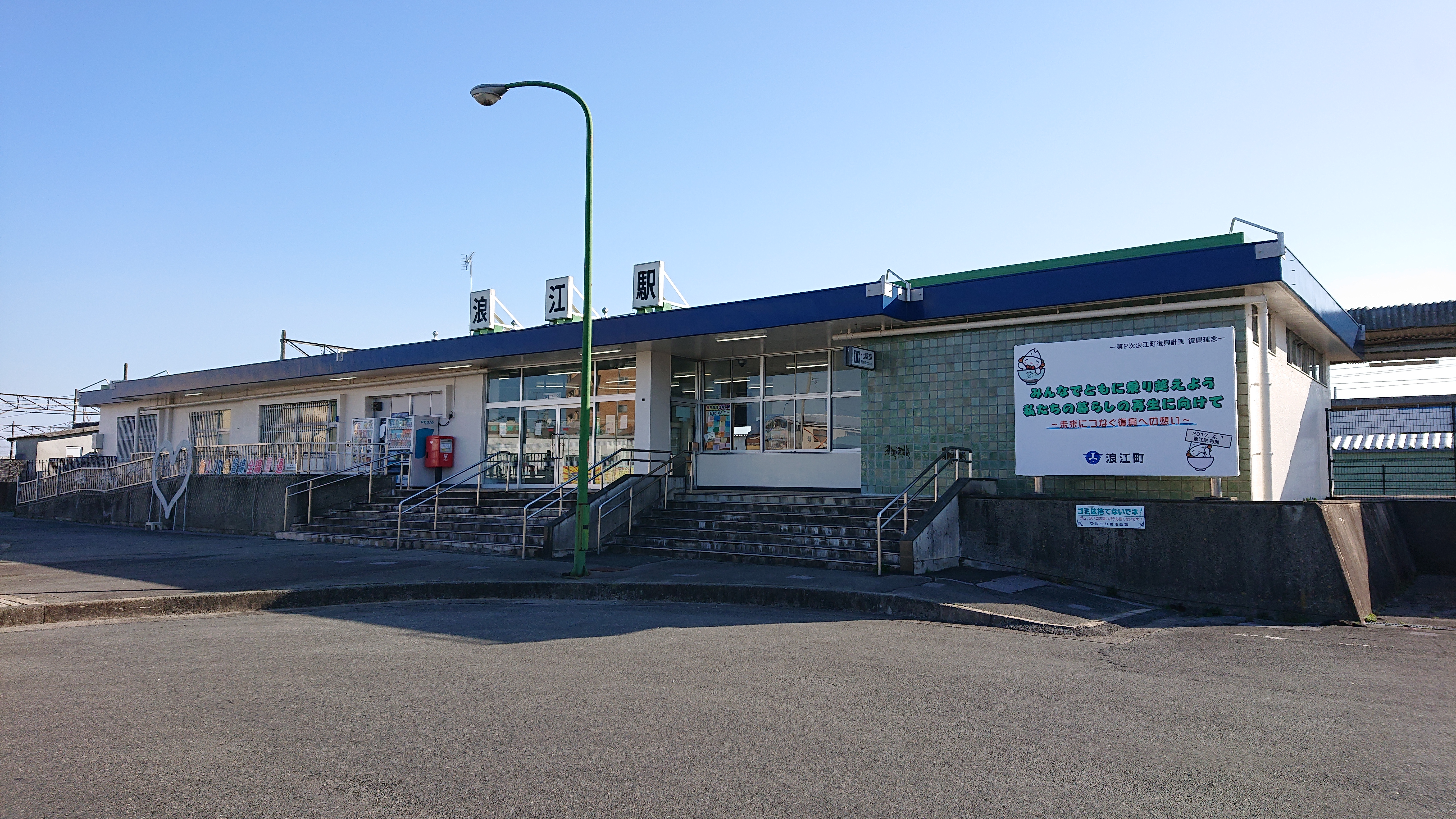 This is JR Joban Line Namie station in Namie, Fukushima, Japan.